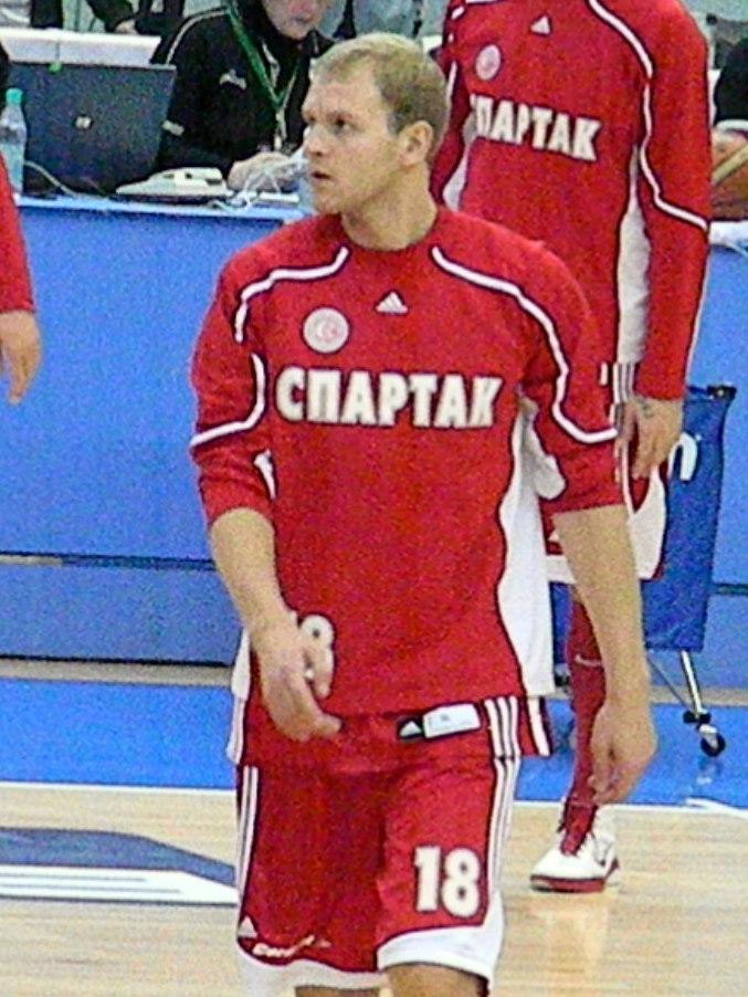 Anton Ponkrashov, russian basketball player from Spartak Saint-Petersburg in the game against BC Nizhny Novgorod on March 19th, 2011